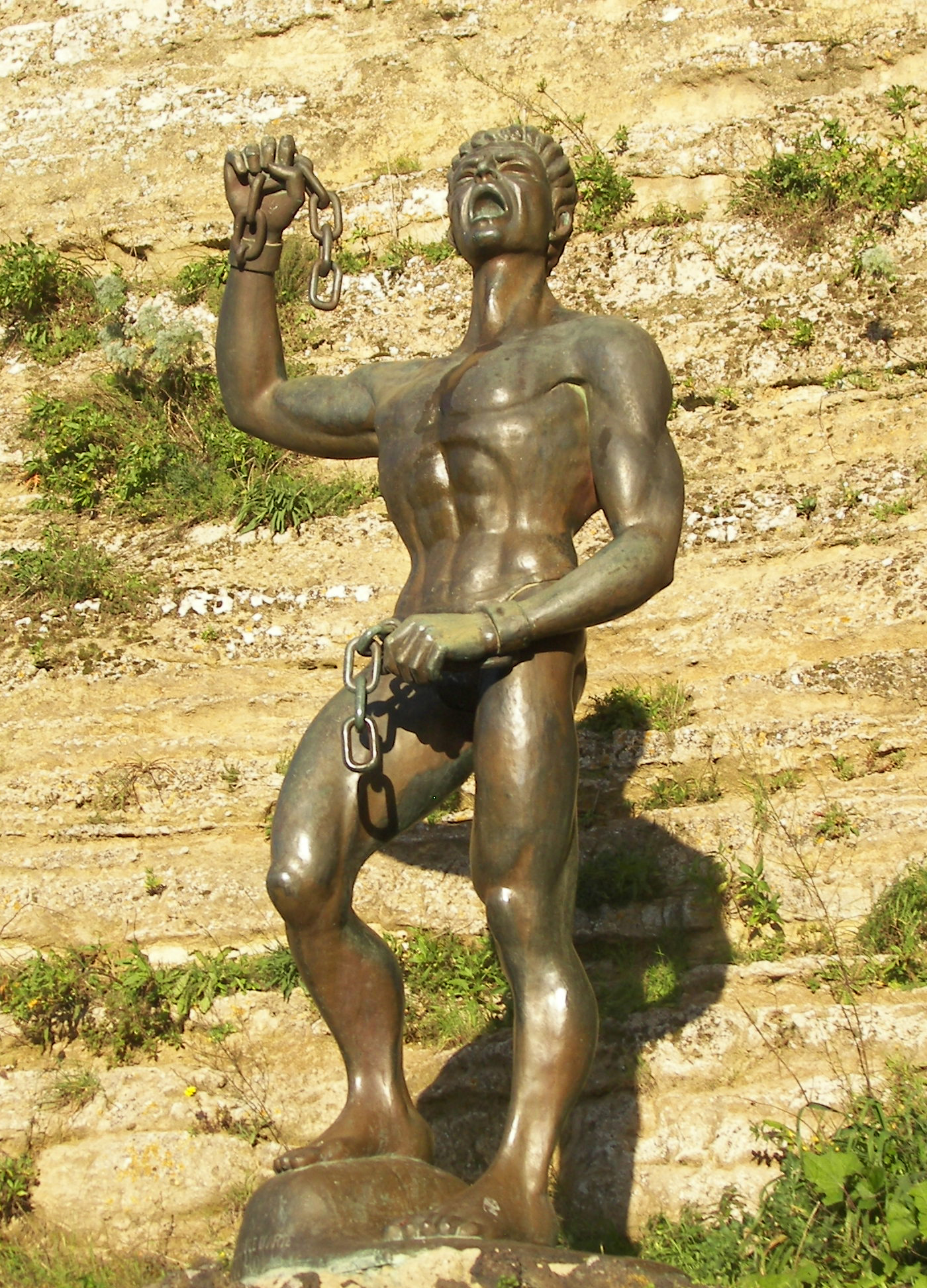 Monument at Euno, Enna, Sicily.